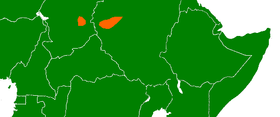 Fur languages (Branch of Nilo-Saharan)